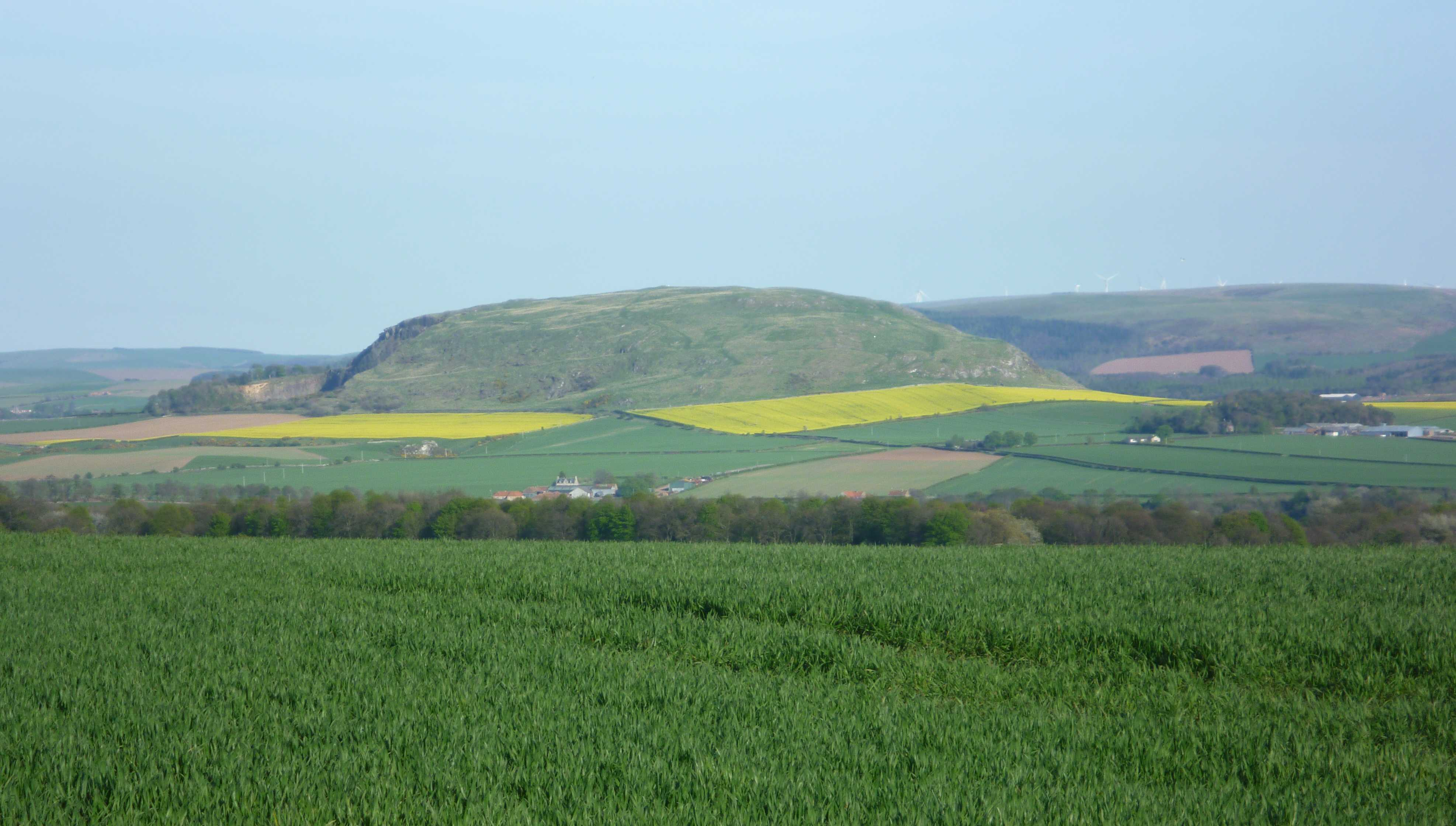 Traprain Law seen from the Garleton Hills above Haddington.